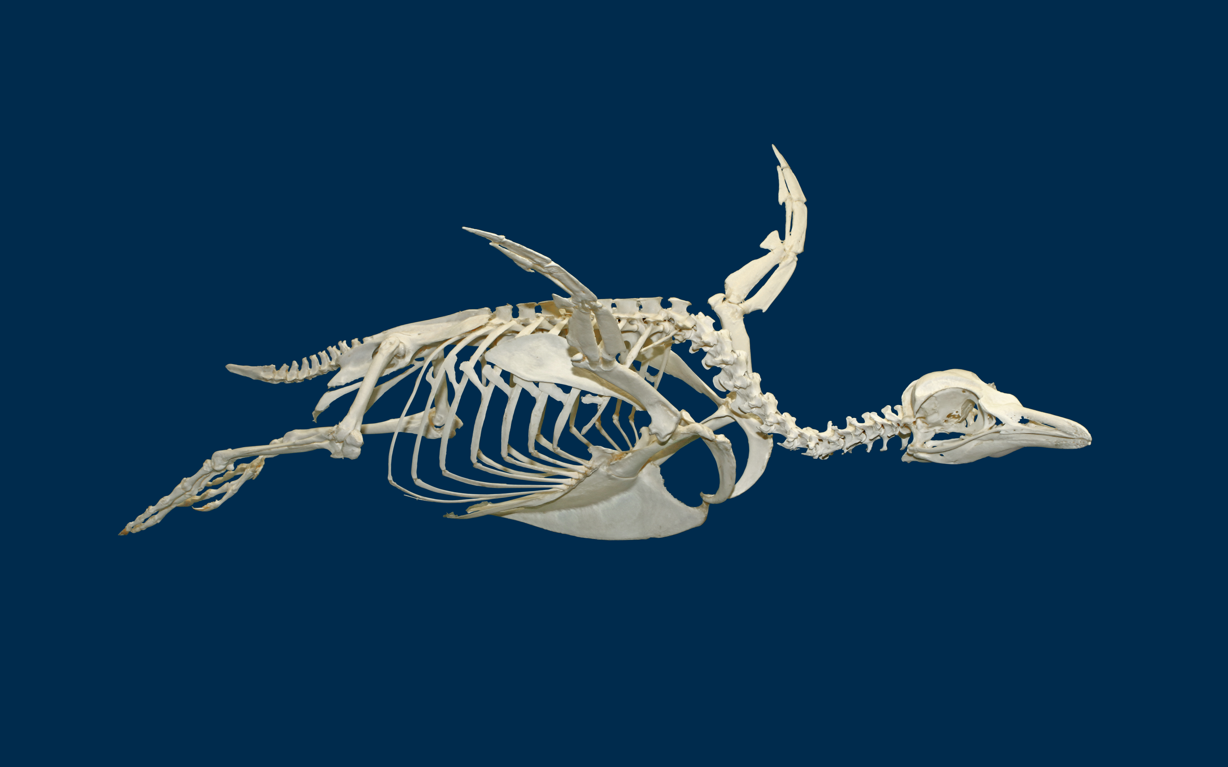 Spheniscus magellanicus, Spheniscidae, Magellanic Penguin, Skeleton; Staatliches Museum für Naturkunde Karlsruhe, Germany.